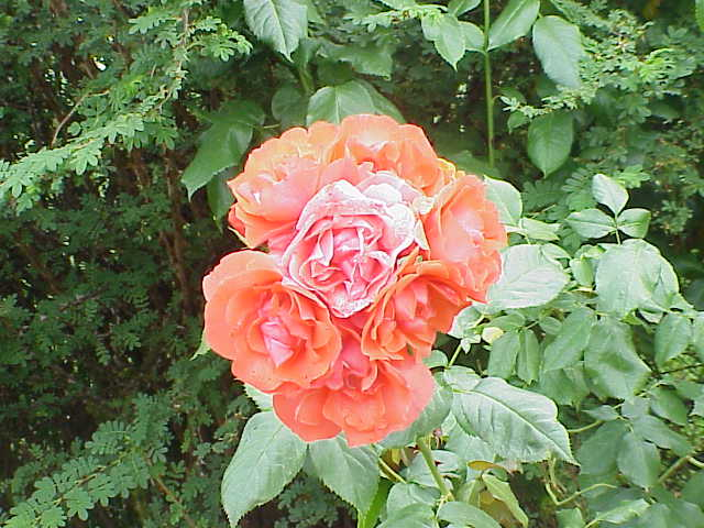 Species: Rosa sp. Family: Rosaceae Cultivar: Friedrich Heyer, Tantau 1956 Image No. 116